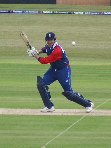 Marcus Trescothick batting in England v. Sri Lanka 3rd ODI at Durham, 24th June 2006